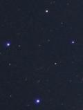 Crux Mini